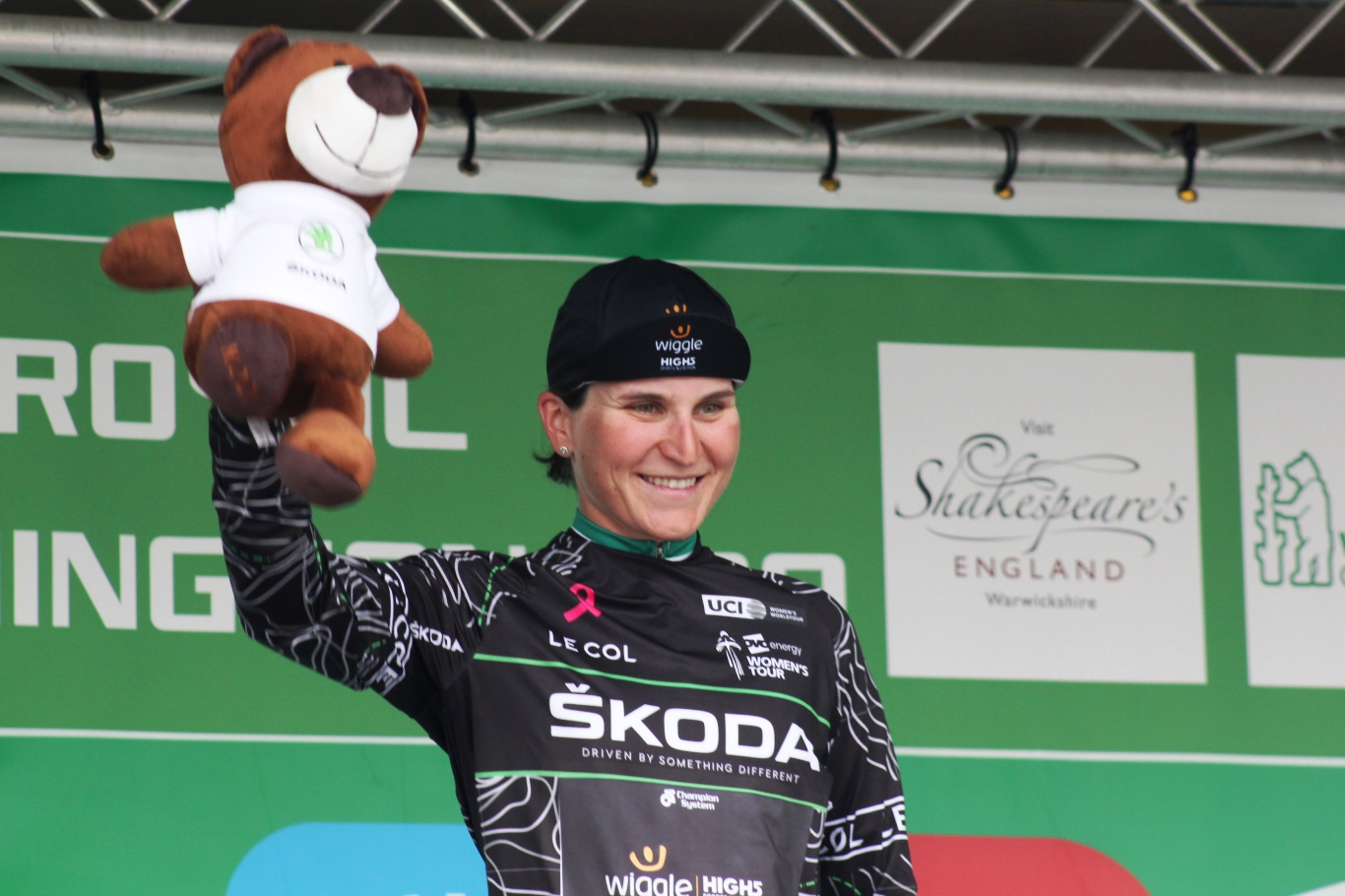 Elisa Longo Borghini wearing the Skoda Queen of the Mountains jersey, on the podium at Royal Leamington Spa at the end of stage 3 of the 2018 Women's Tour.